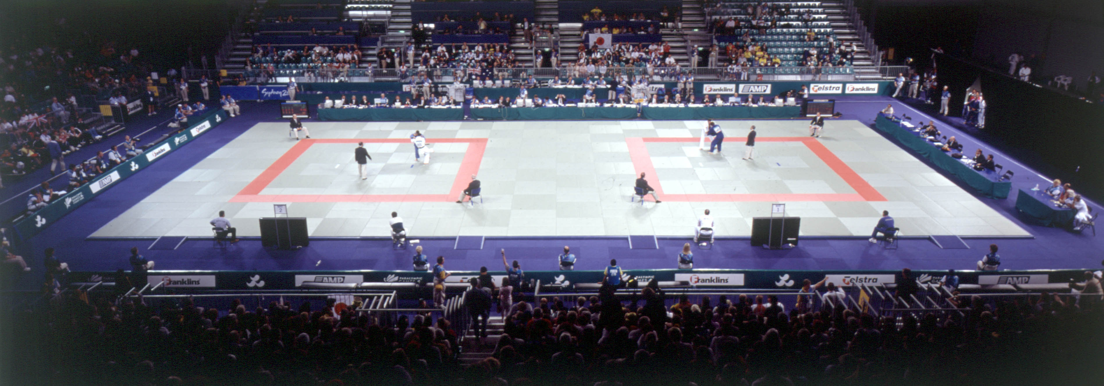 Panoramic view of the Judo venue during competition at the 2000 Sydney Paralympic Games